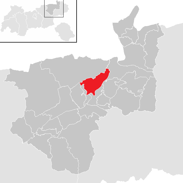 District Kufstein